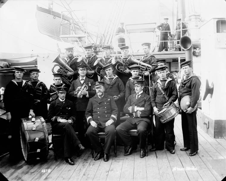 Band of H.M.S. "Comus", North America and West Indies Squadron. At Halifax, Nova Scotia, Canada.